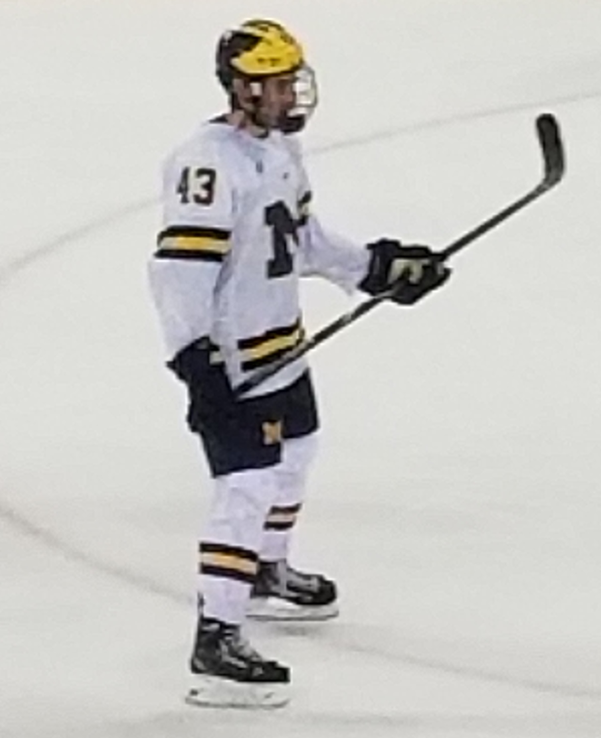 Vermont Catamounts at Michigan Wolverines